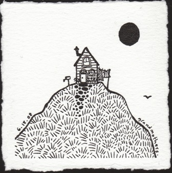 pen and ink on paper